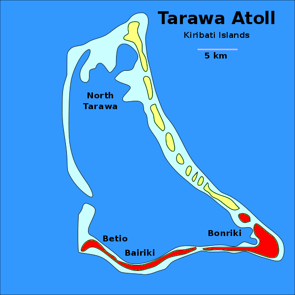 Locator map of the municipality of South Tarawa (shown in red) within the atoll of Tarawa, in Kiribati. The other municipality, North Tarawa, is shown in yellow.